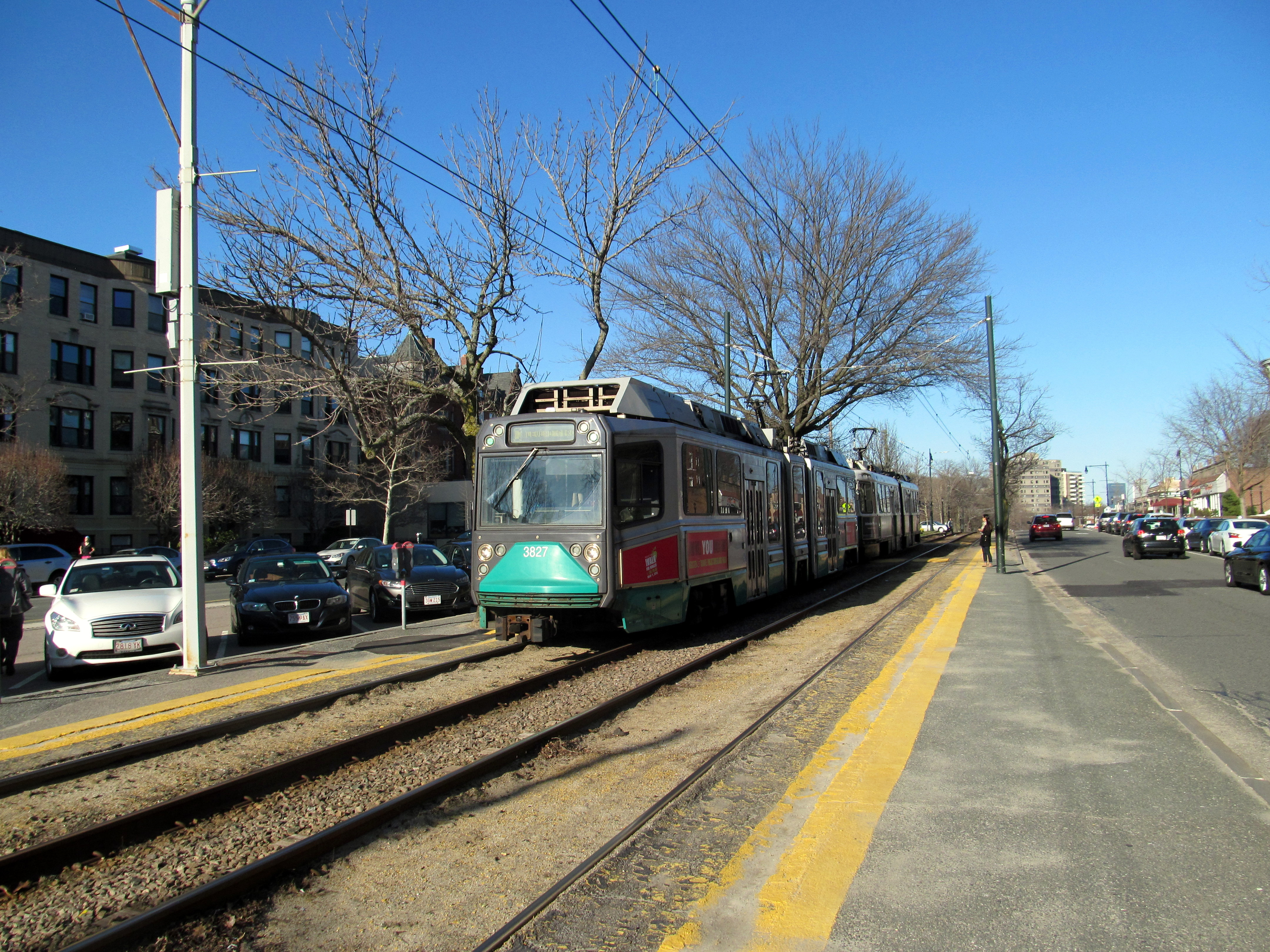 An outbound train at Tappan Street station in April 2016